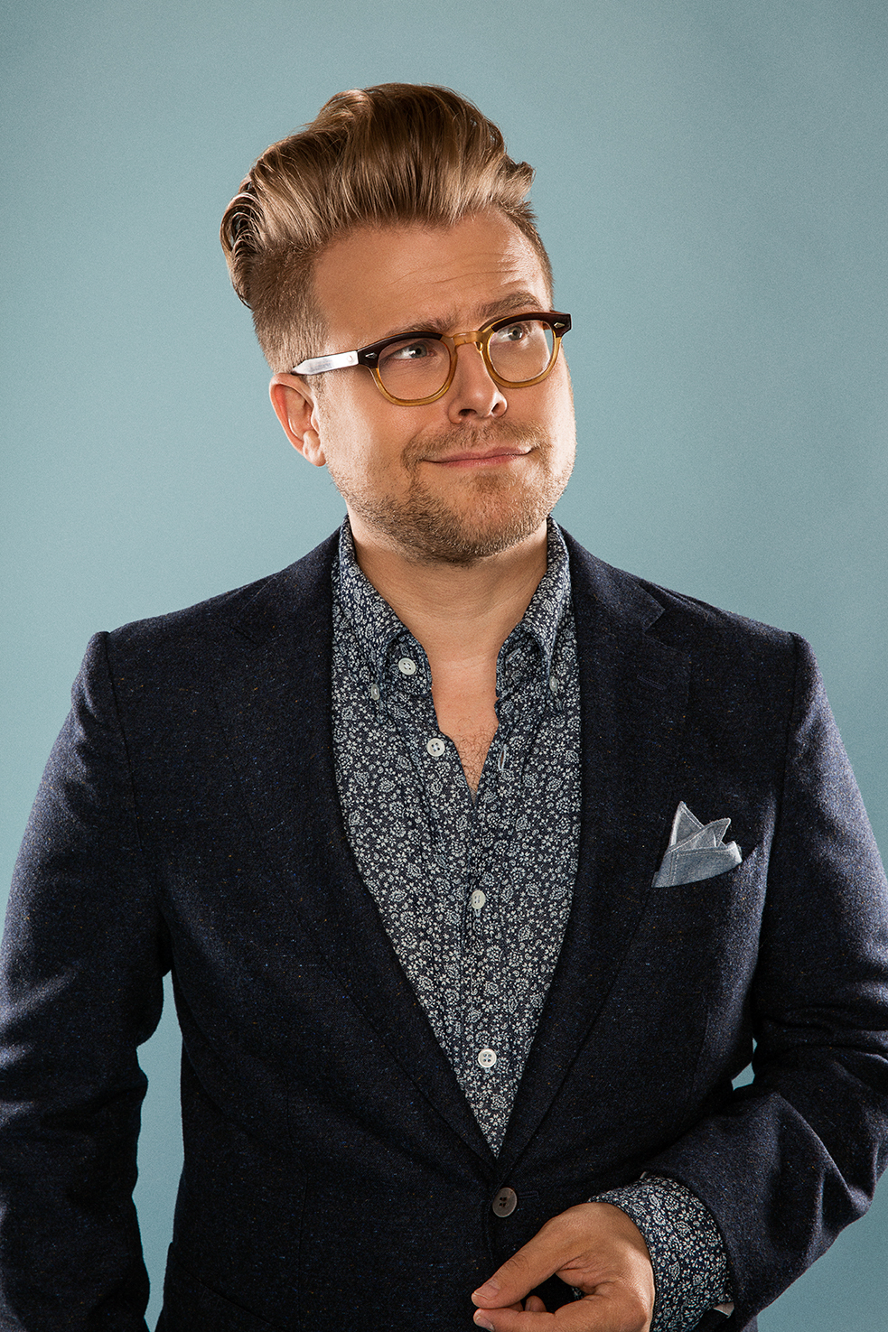 Comedian Adam Conover in blue suit